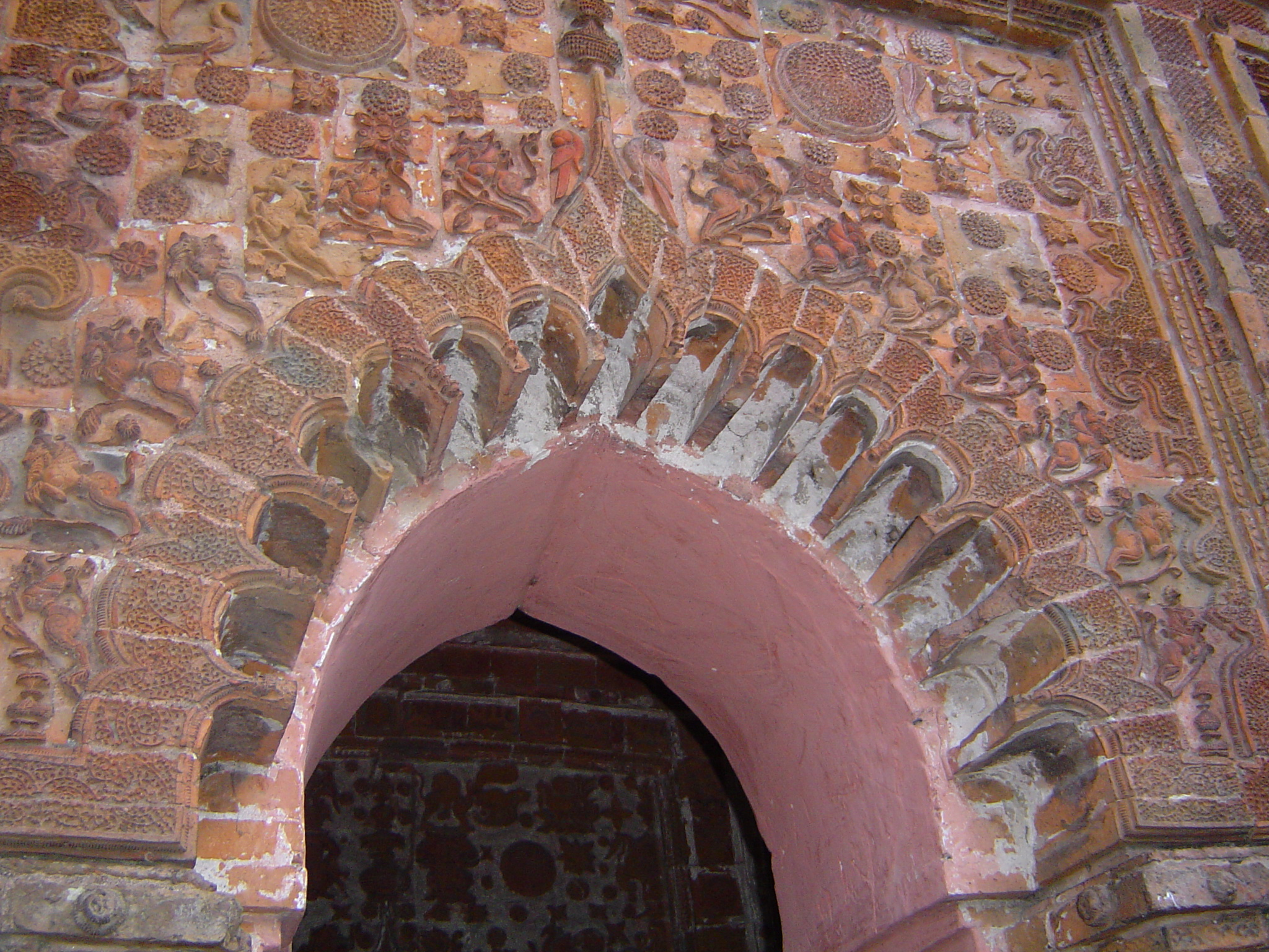 Teracotta works in Ananta Basudeba temple